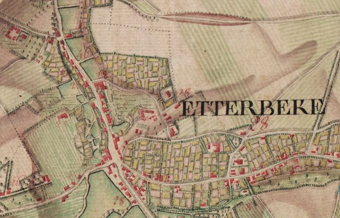 Ferraris Map of Etterbeek (Bruxelles) in 1777